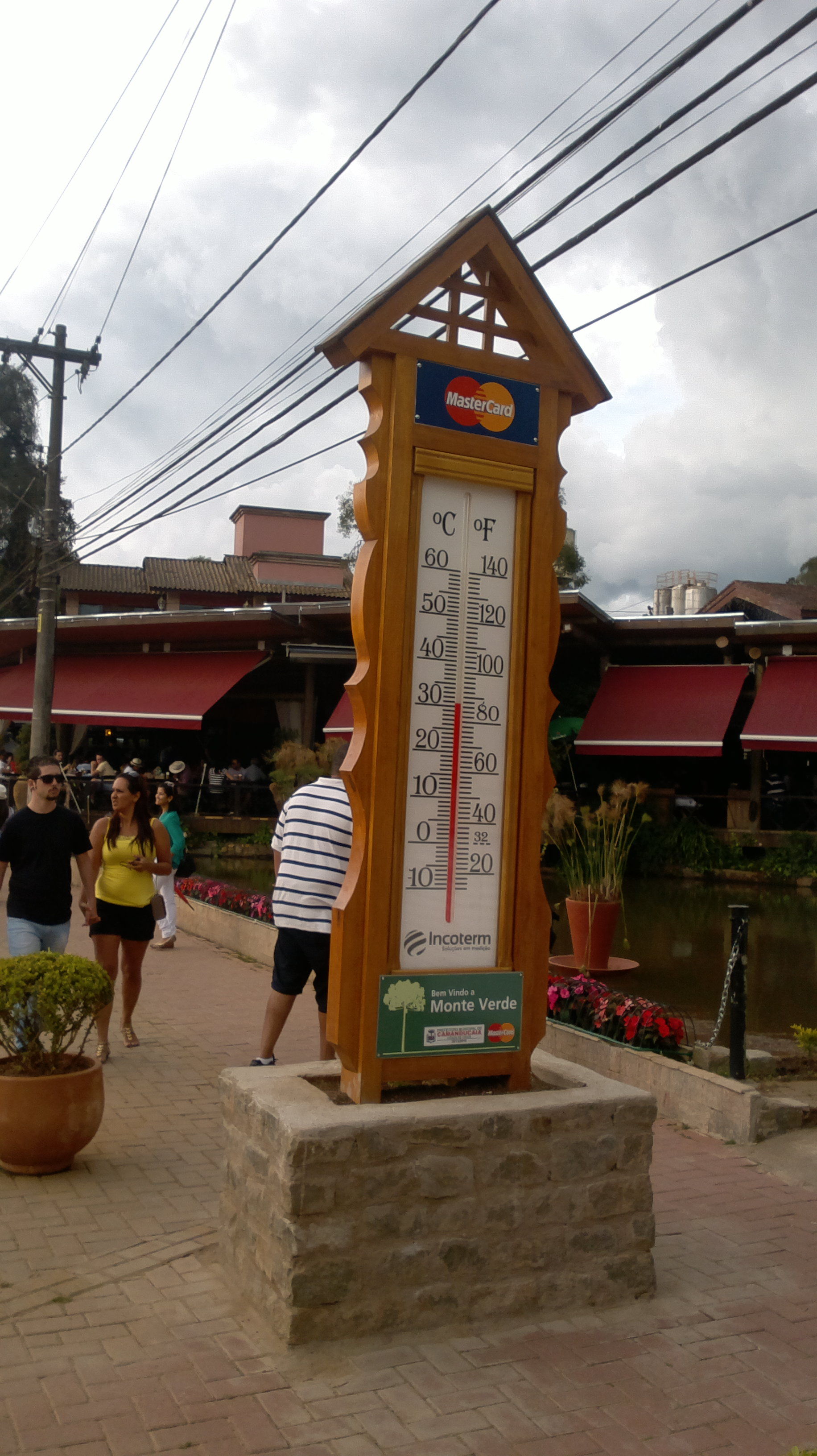 Monte Verde thermometer